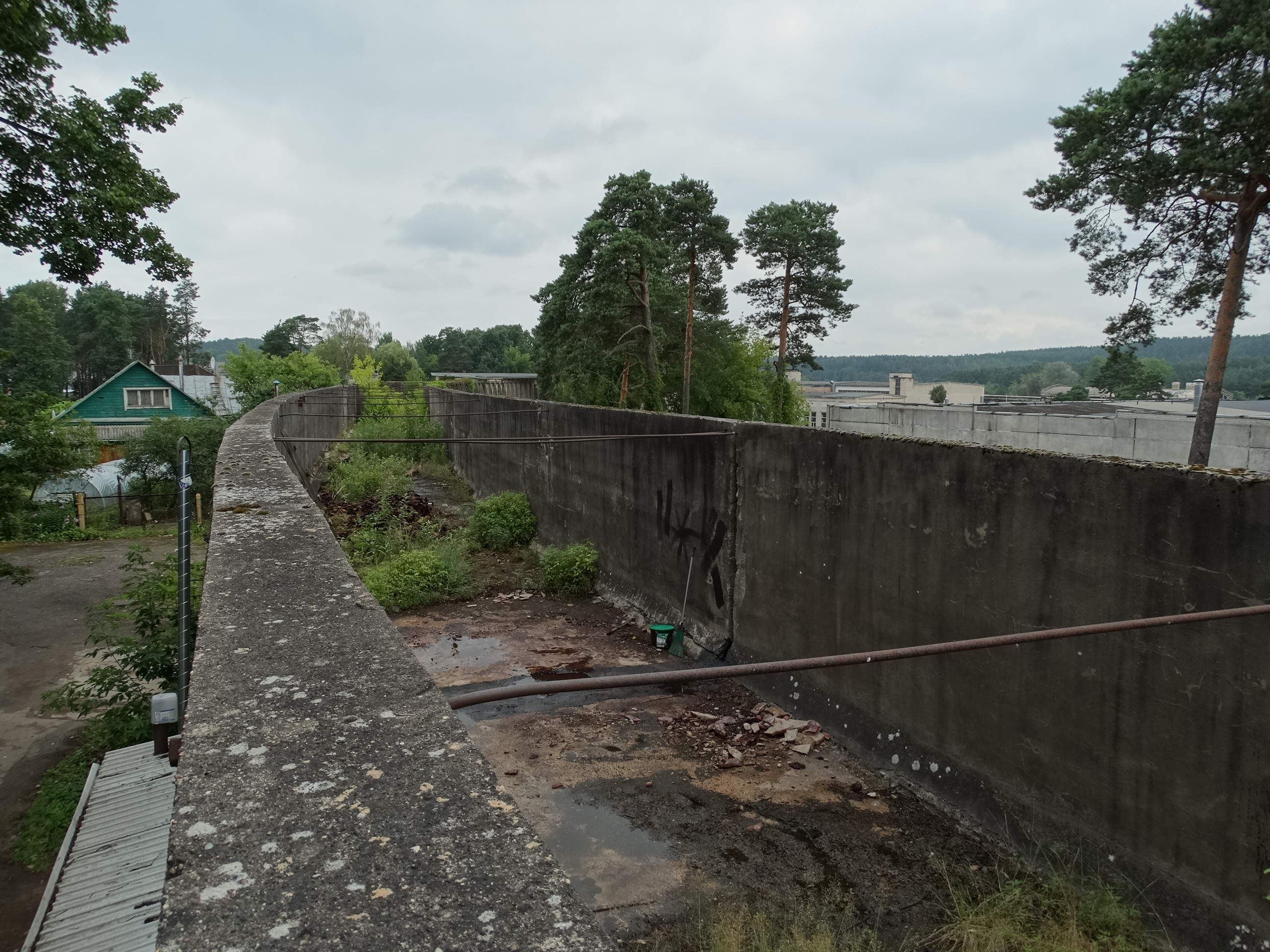 Former aqueduct (water supply), Grigiškės, Lithuania